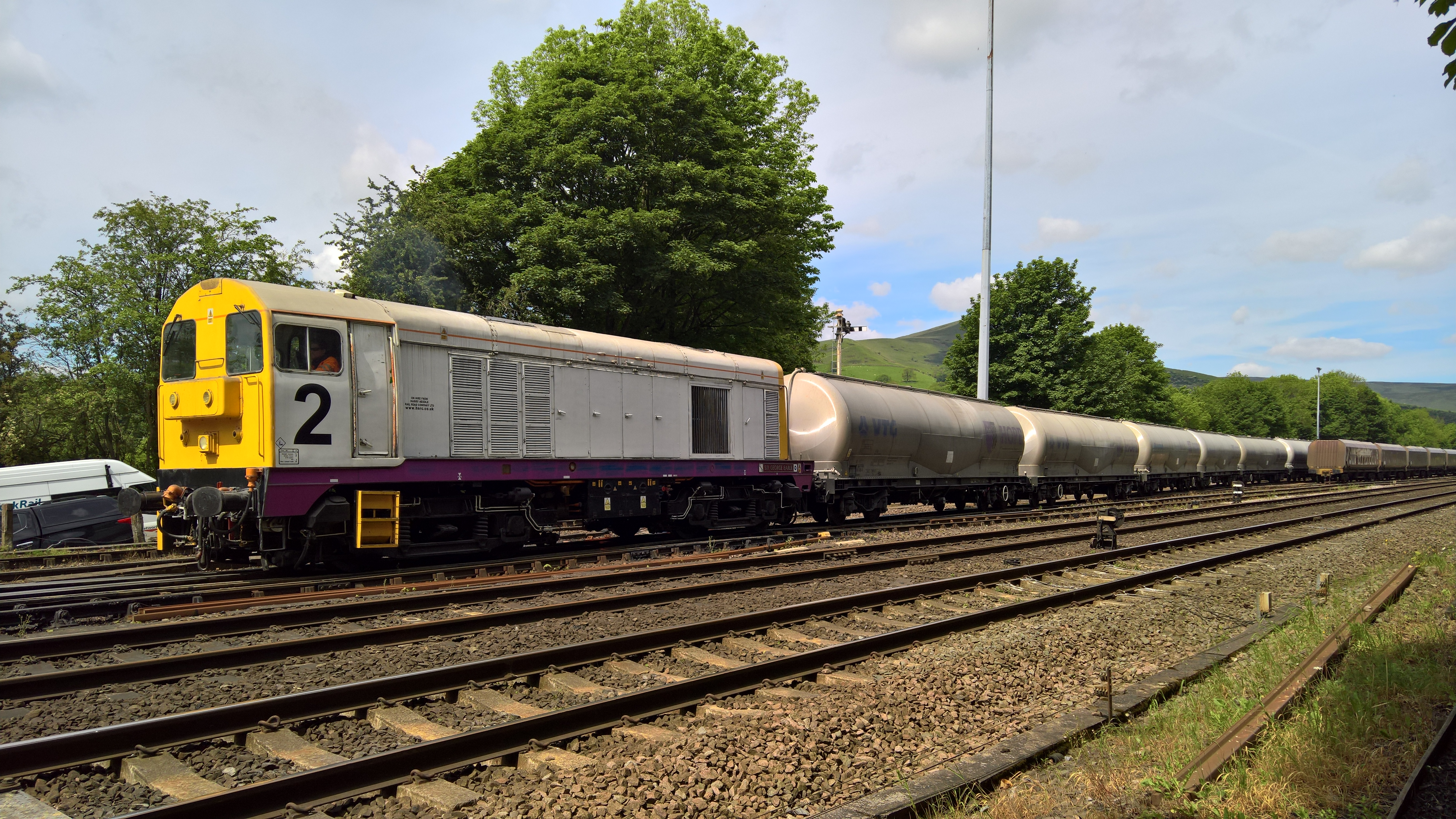 Class 20 20168 Sir George Earle (No2) at Earles Sidings, Hope Valley on 31 May 2017.